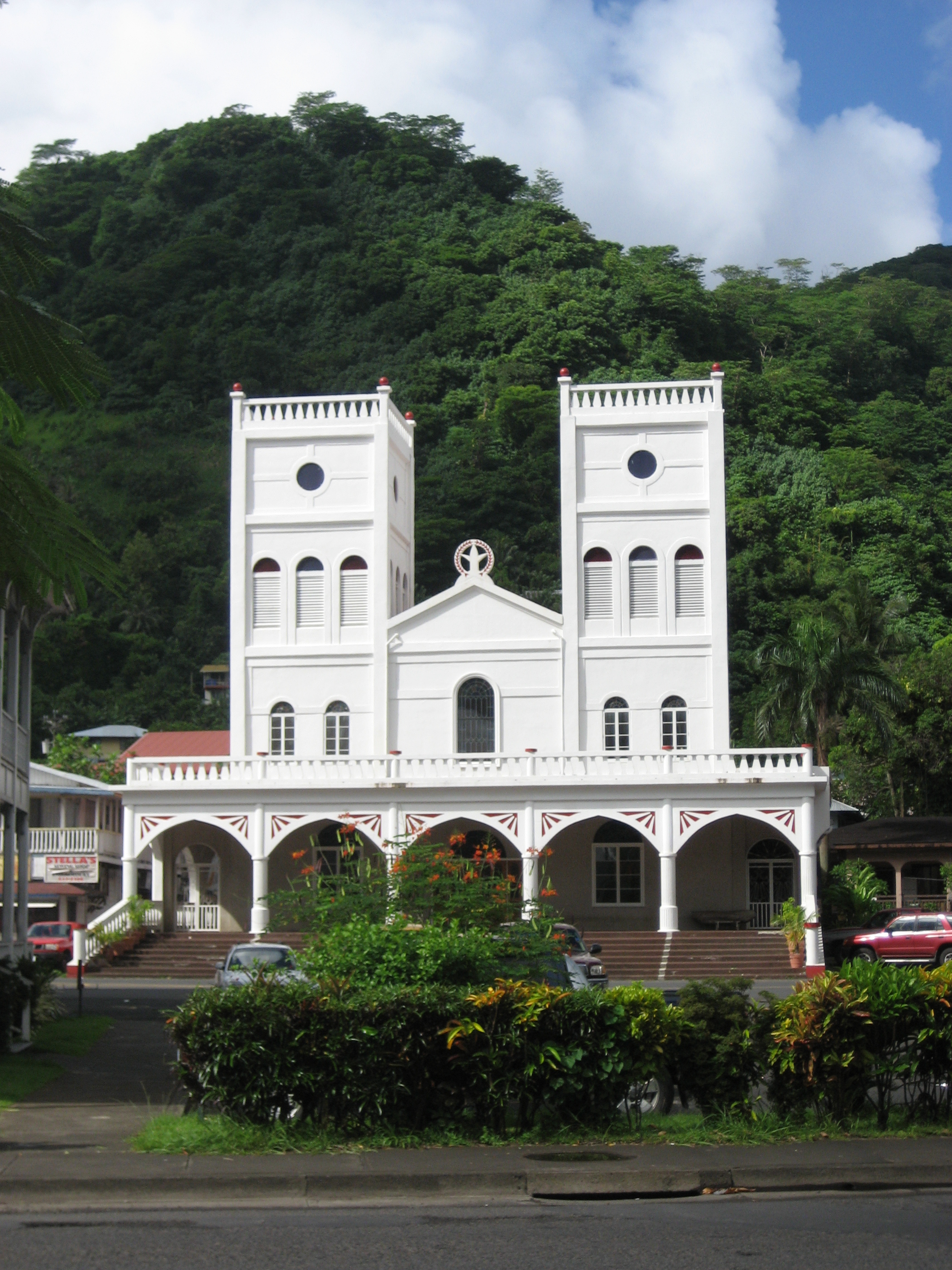 Church